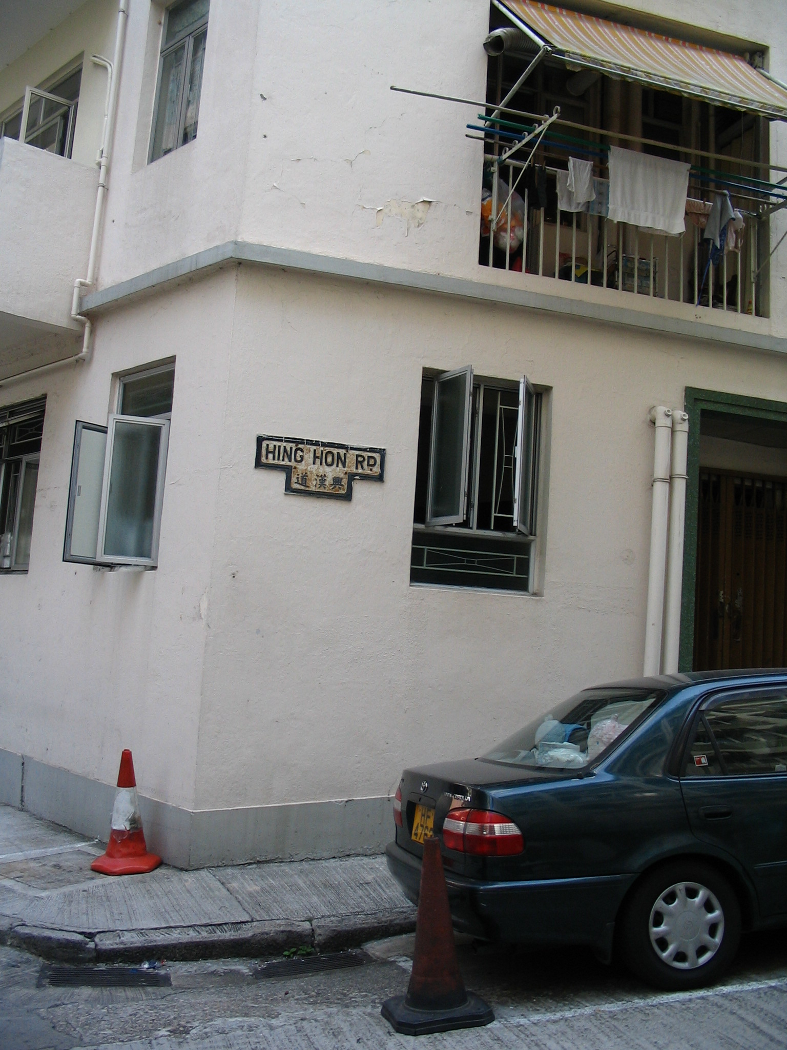 Photo of Hing Hon Road